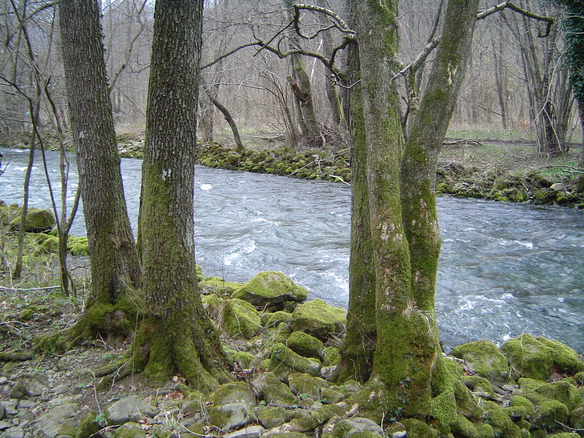 Rječina before Kukuljani.